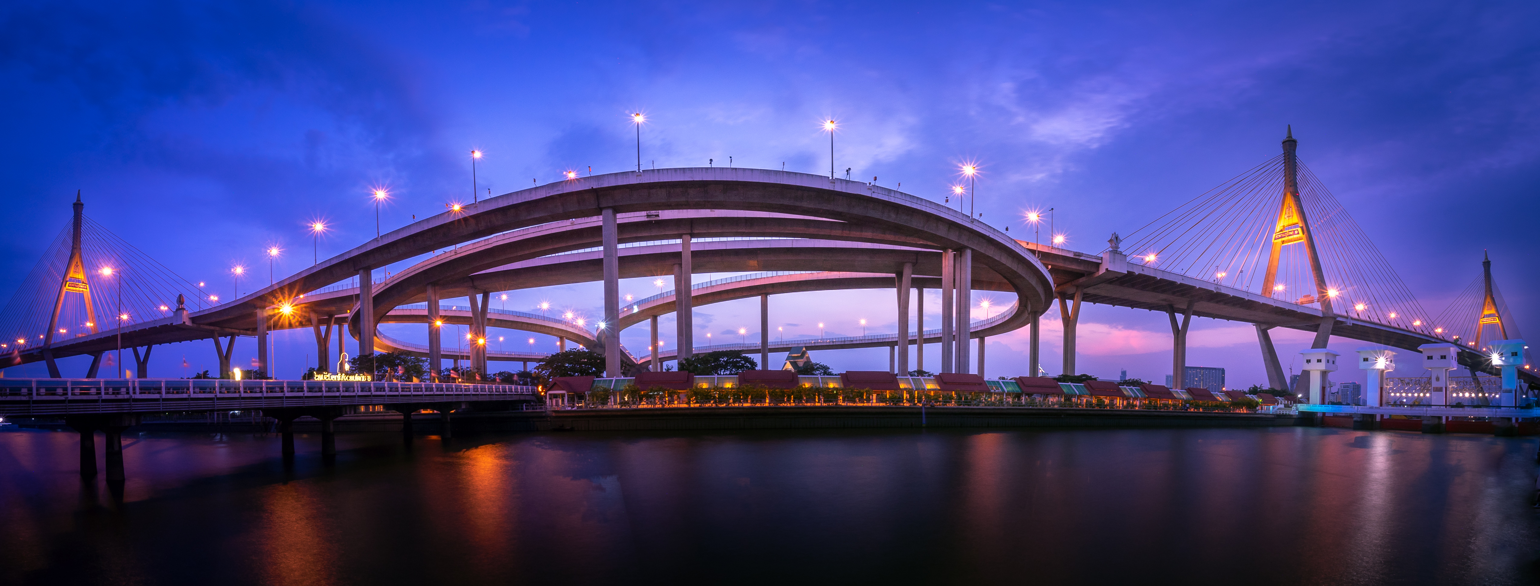 Night shot of the Bhumipol Bridge in May 2019